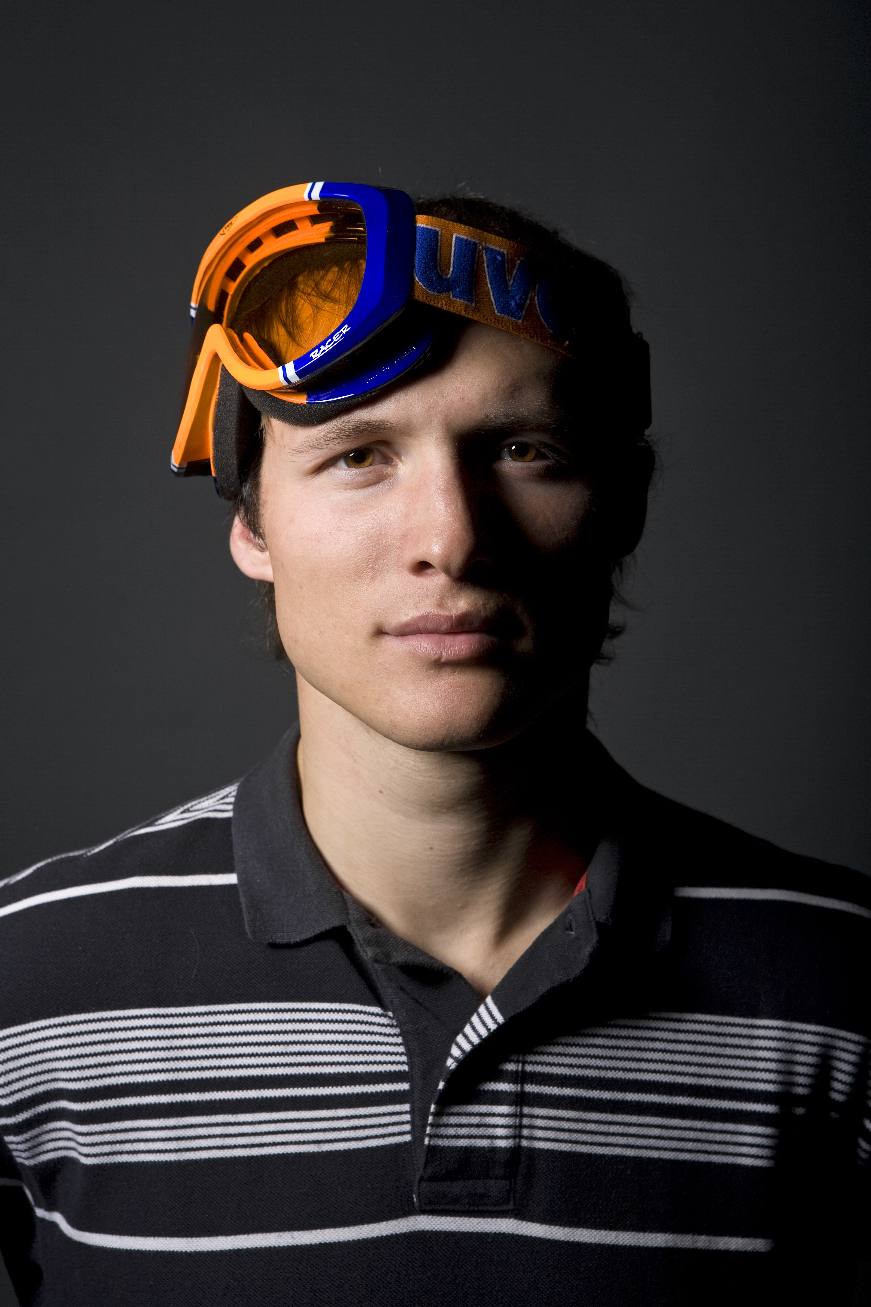 Alexander Khoroshilov